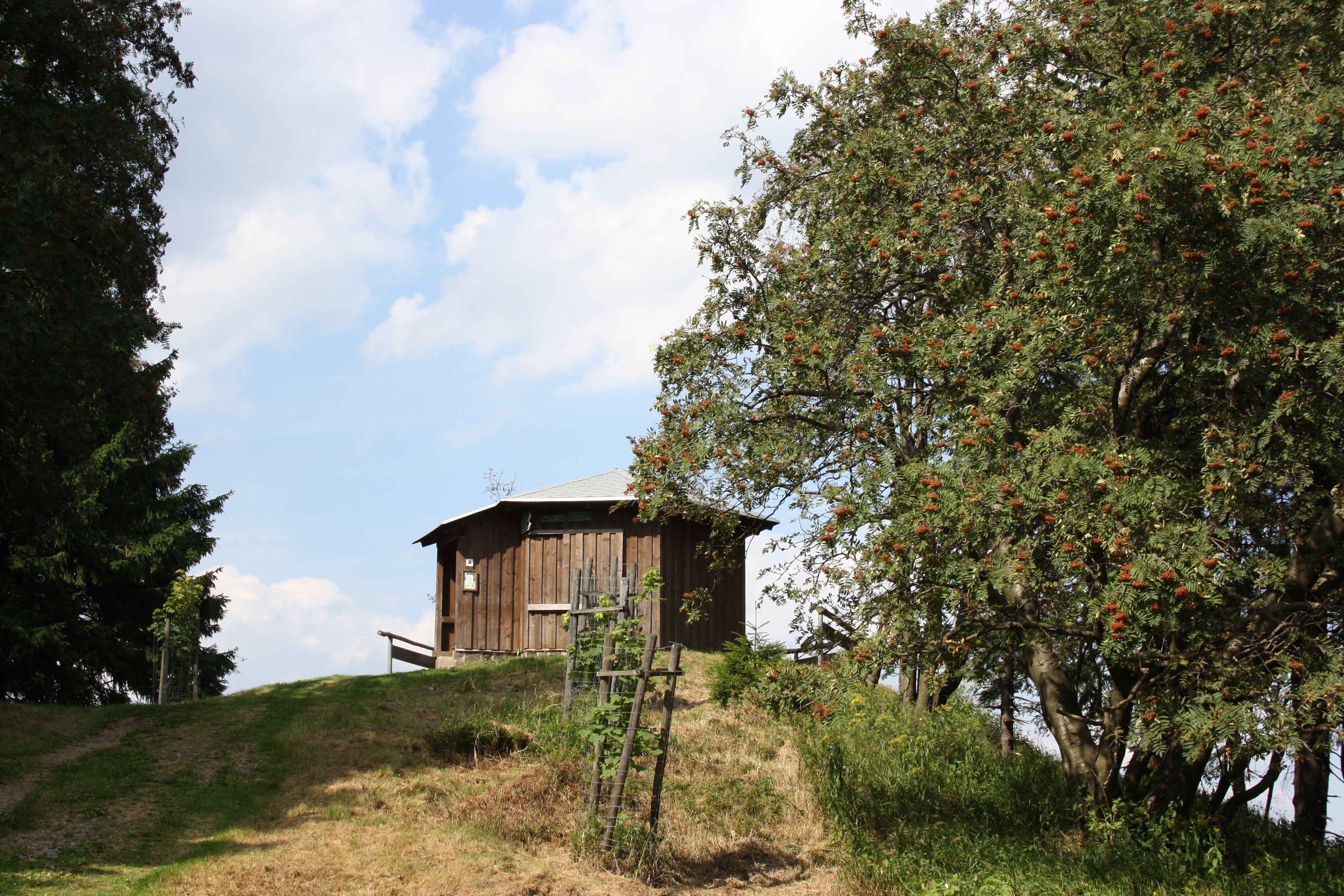 Germany, Thuringia, District "Ilmkreis" - Finsterberg near Schmiedefeld am Rennsteig, refuge